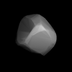 3D convex shape model of 1500 Jyväskylä, computed using light curve inversion techniques. J. Hanuš, J. Ďurech, M. Brož, B. D. Warner (June 2011). "A study of asteroid pole-latitude distribution based on an extended set of shape models derived by the lightcurve inversion method". Astronomy and Astrophysics 530: A134. ISSN 0004-6361. arXiv